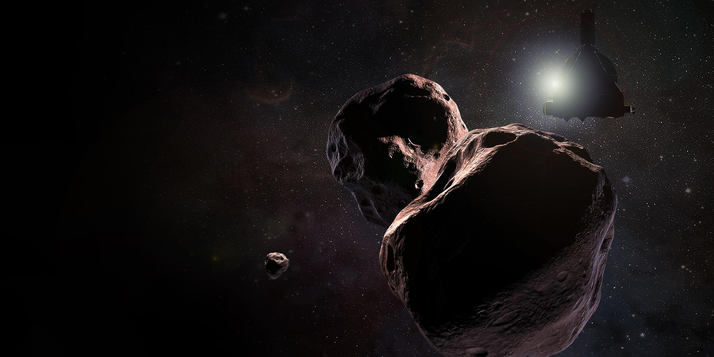 PIA22190: New Horizons Encountering 2014 MU69 (Artist's Impression) Artist's impression of NASA's New Horizons spacecraft encountering 2014 MU69, a Kuiper Belt object that orbits one billion miles (1.6 billion kilometers) beyond Pluto, on Jan. 1, 2019. The Johns Hopkins University Applied Physics Laboratory in Laurel, Maryland, designed, built, and operates the New Horizons spacecraft, and manages the mission for NASA's Science Mission Directorate. The Southwest Research Institute, based in San Antonio, leads the science team, payload operations and encounter science planning. New Horizons is part of the New Frontiers Program managed by NASA's Marshall Space Flight Center in Huntsville, Alabama.